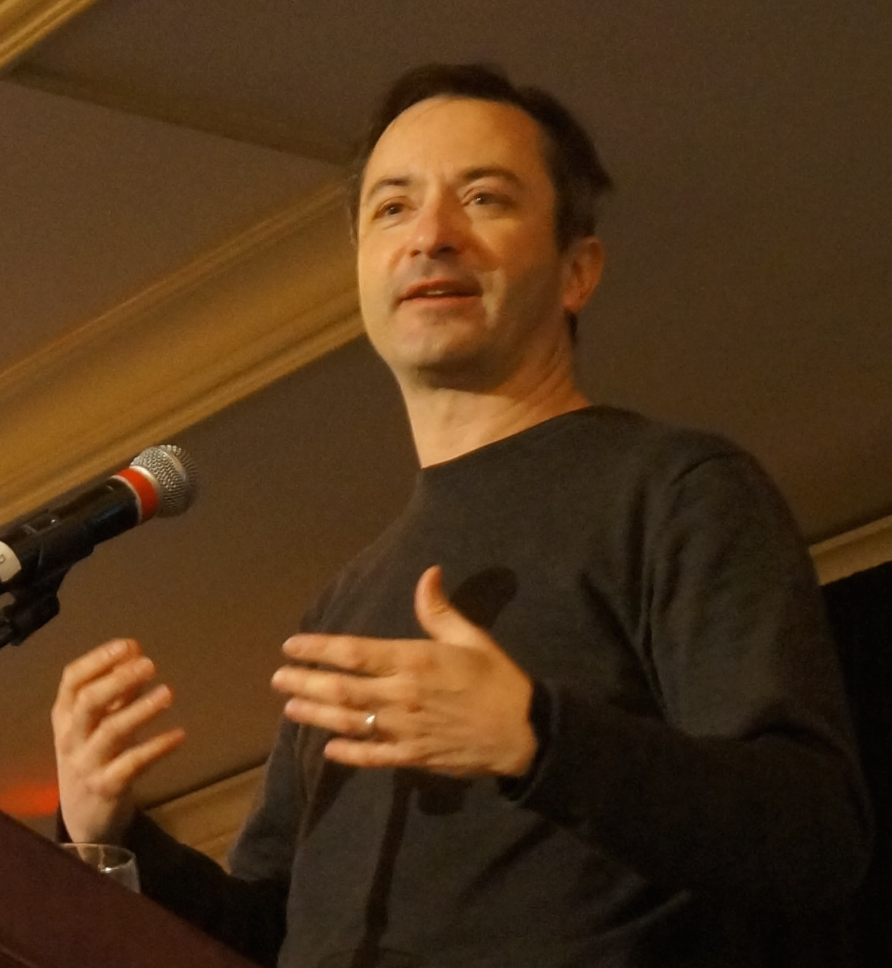 Richard Baraniuk at the SPARC 2014 OA Meeting